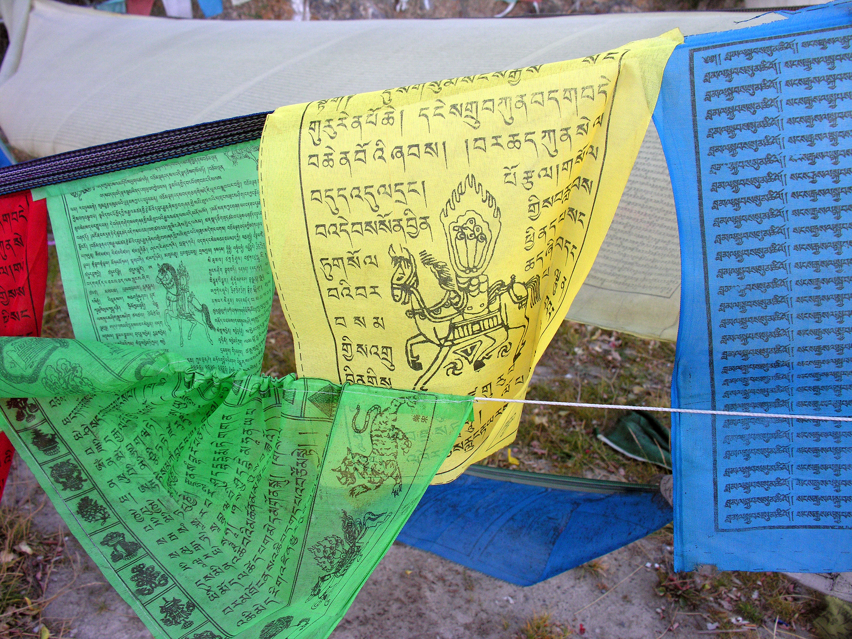 The coloured cloths are prayer flags they are inscribed with auspicious symbols, invocations, prayers, and mantras. Tibetan Buddhists for centuries have planted these flags outside their homes and places of spiritual practice for the wind to carry the beneficent vibrations across the countryside. Prayer flags are said to bring happiness, long life and prosperity to the flag planter and those in the vicinity. Lhasa, Tibet